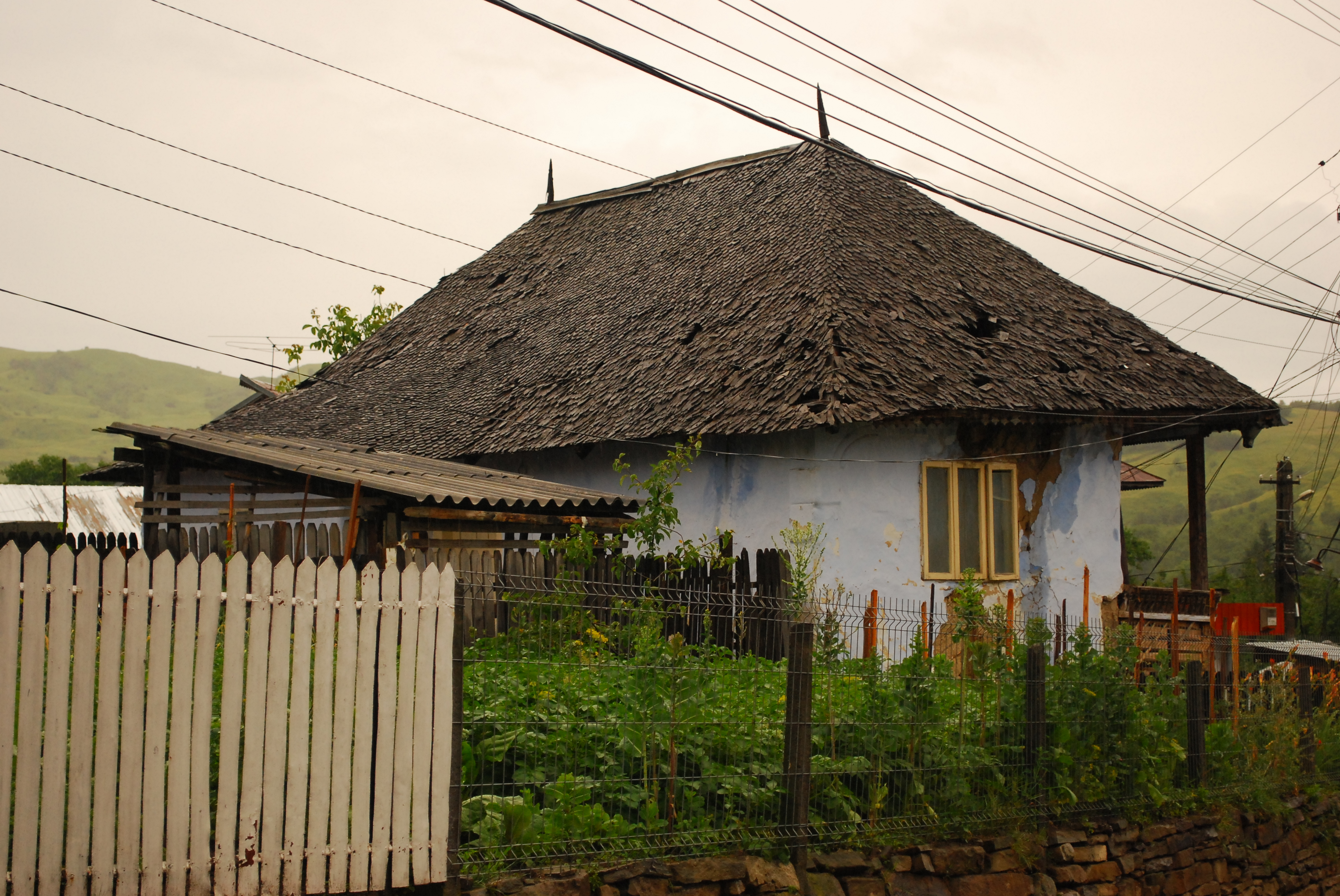 Ecaterina Nicolae and Sofia Gârbea house in Starchiojd, Prahova County, RomaniaRomână: Casa Ecaterina Nicolae și Sofia Gârbea din Starchiojd, județul Prahova, România